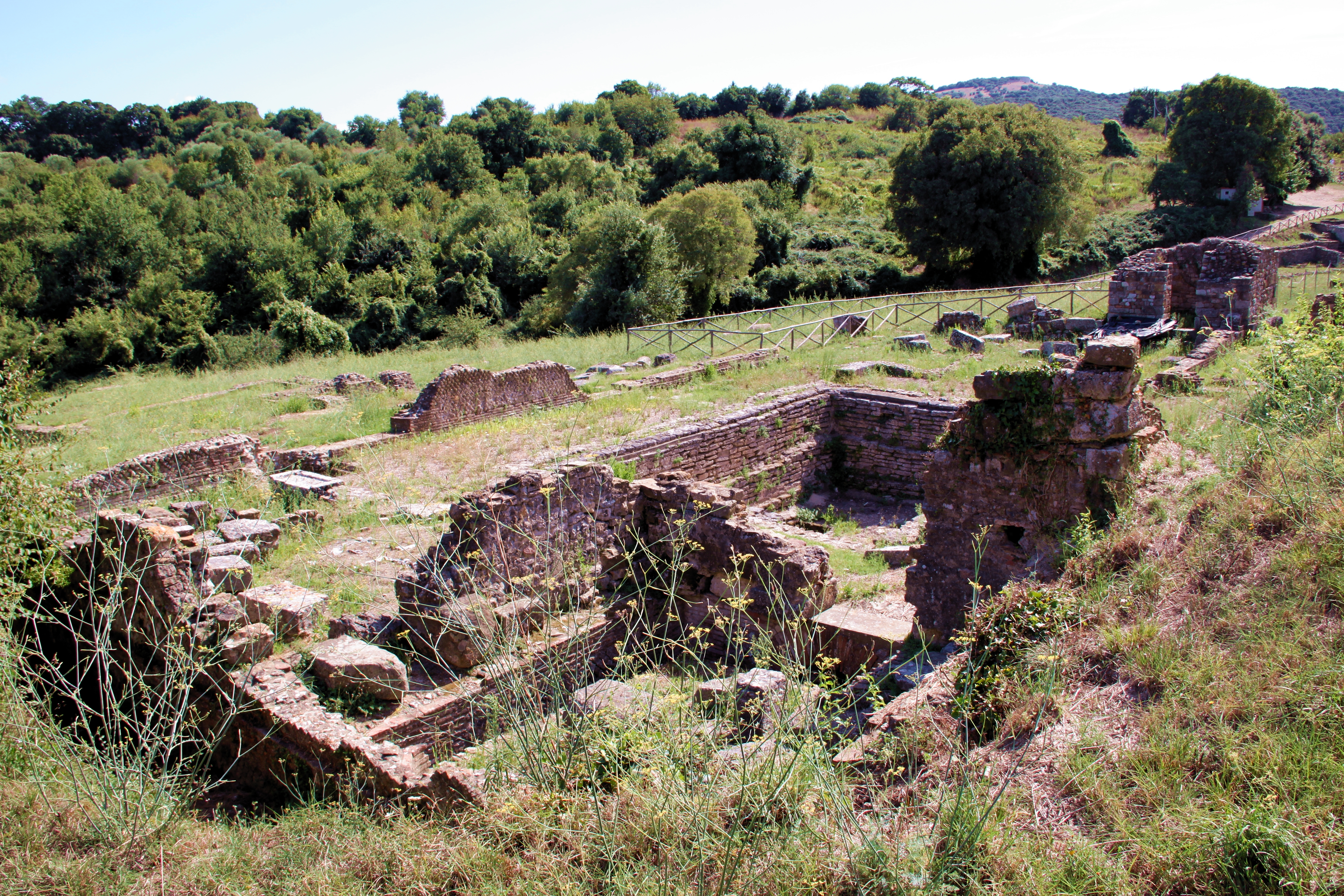 Archaeological Park of Roselle: Thermae (i. e. public baths)